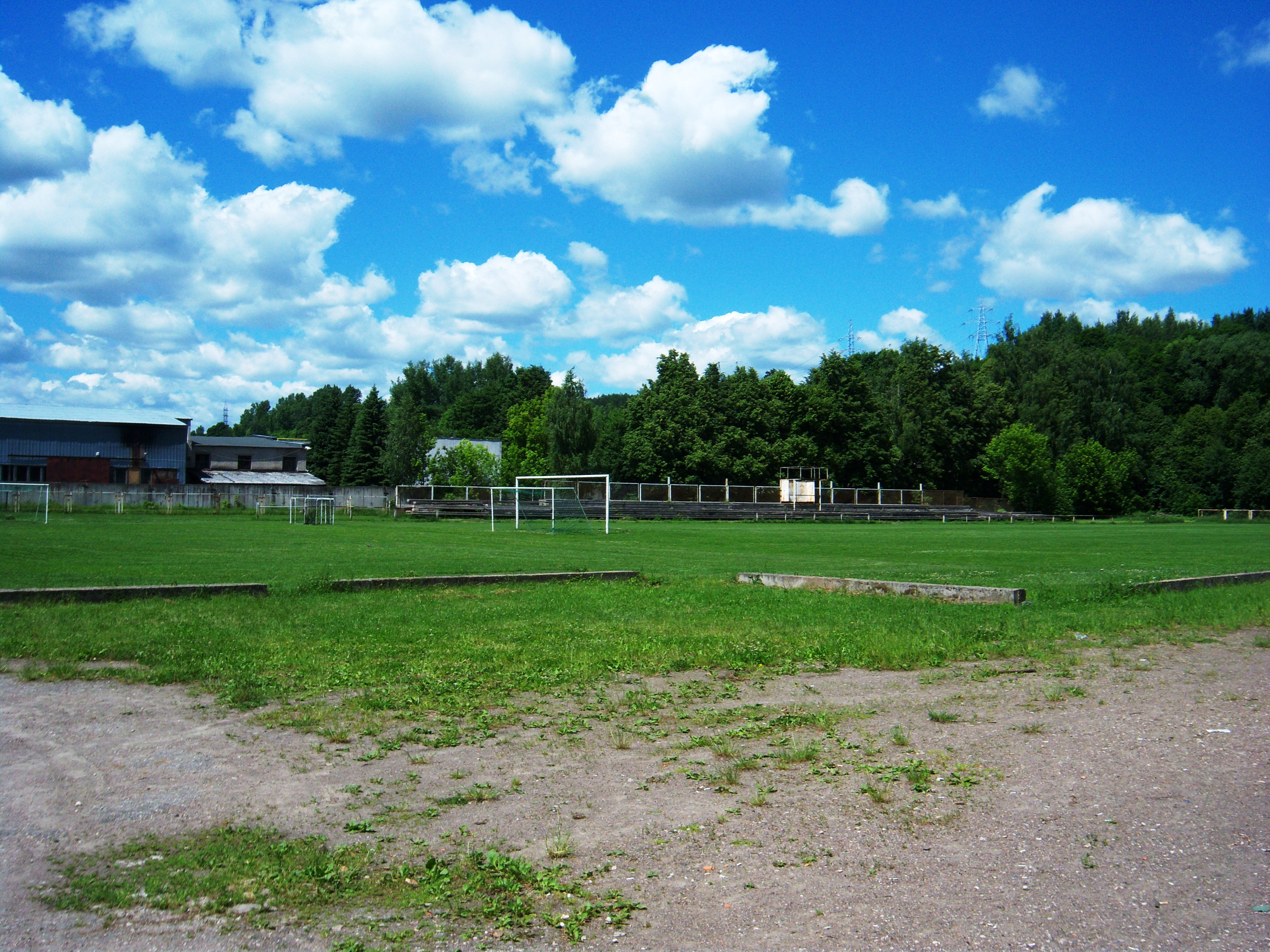 Football stadium of Inkaras, Kaunas, Lithuania